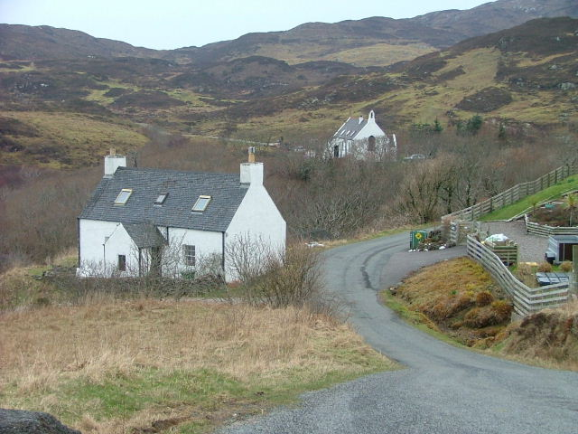 End Of The Road. The end of the Aird township road. The former Church behind the house is now a Gallery.